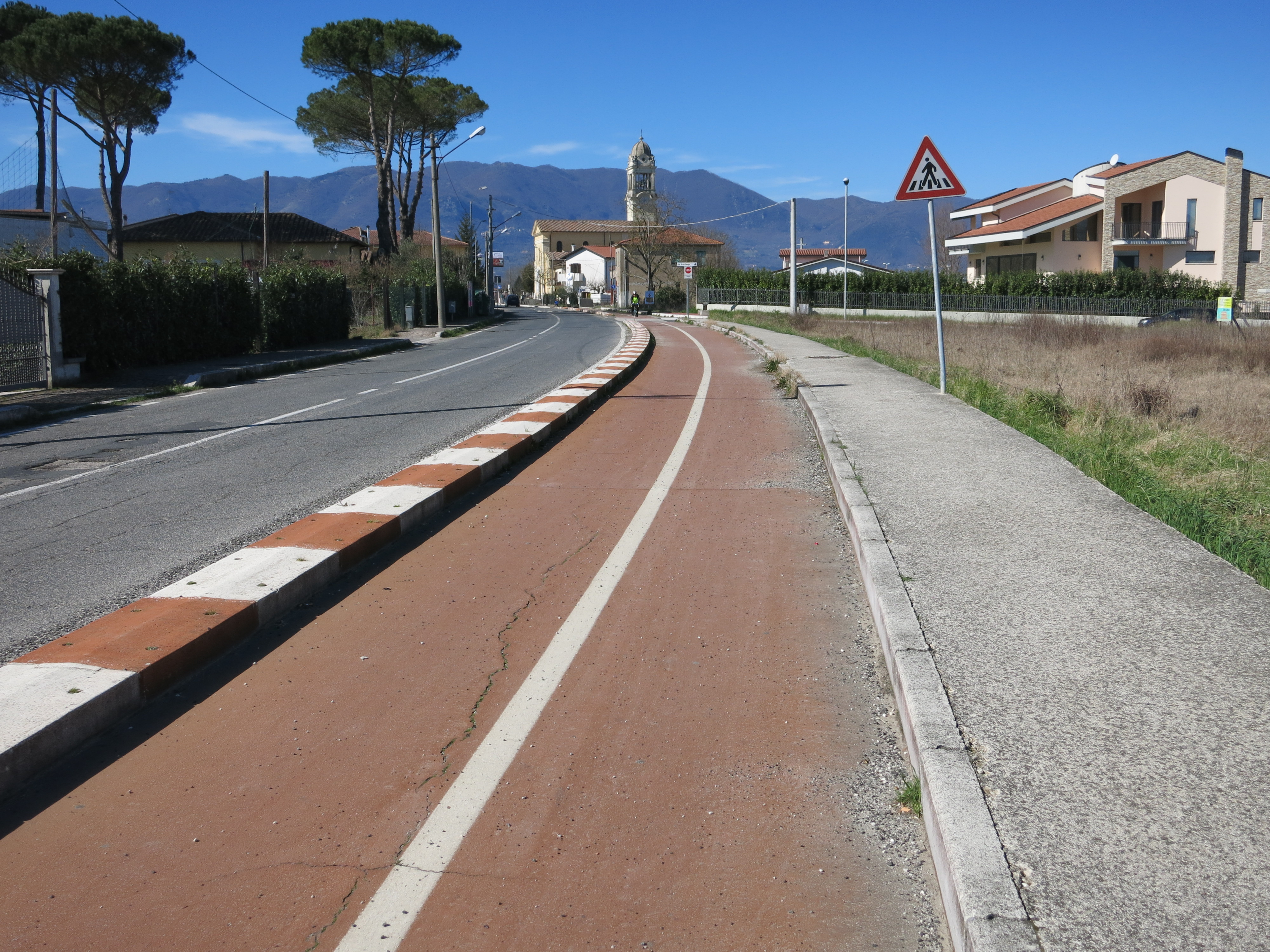 Ciclovia della Conca Reatina, bikeway in the province of Rieti (Lazio, Italy)